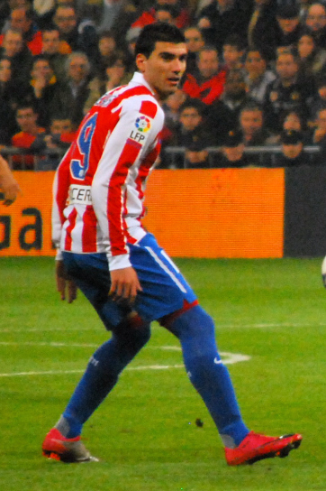 Spanish football player José Antonio Reyes while playing for Club Atlético de Madrid